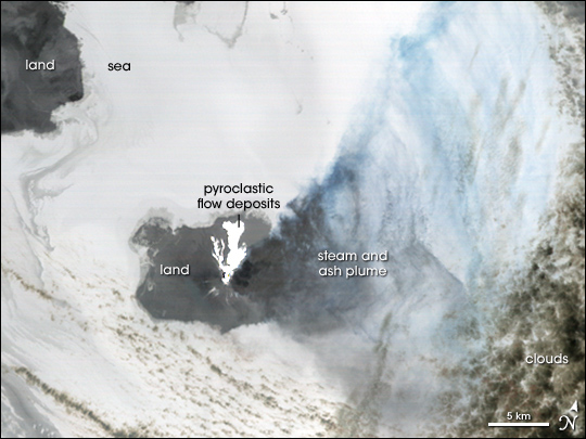 Thermal imagery of the volcano eruption on Augustine Island taken by the ASTER. White parts of the image are warmer than dark areas.